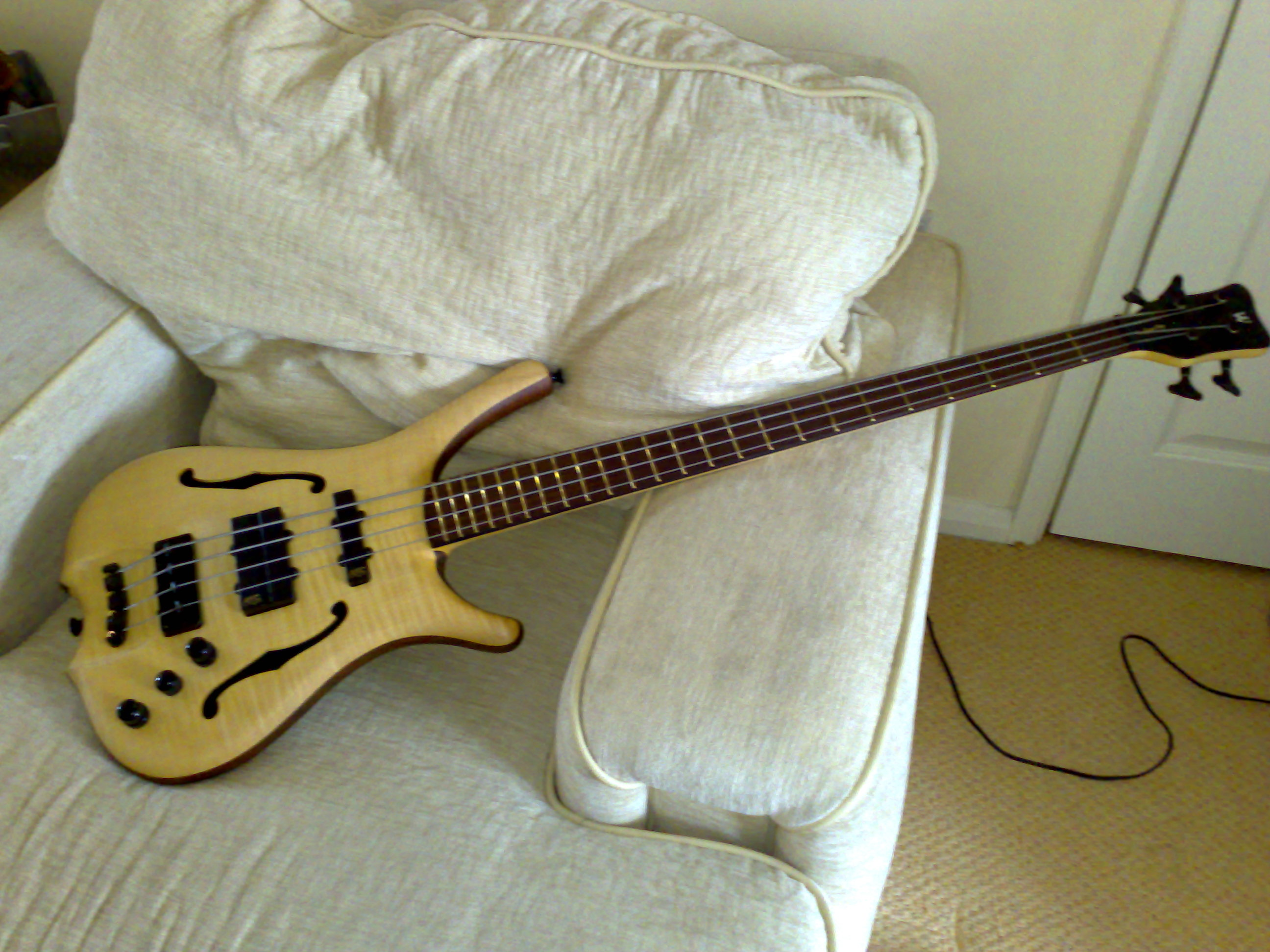 Warwick Infinity 4 String bass guitar.